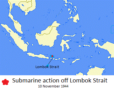 Map of the German Navy submarine U-537 wreck in the Java Sea.